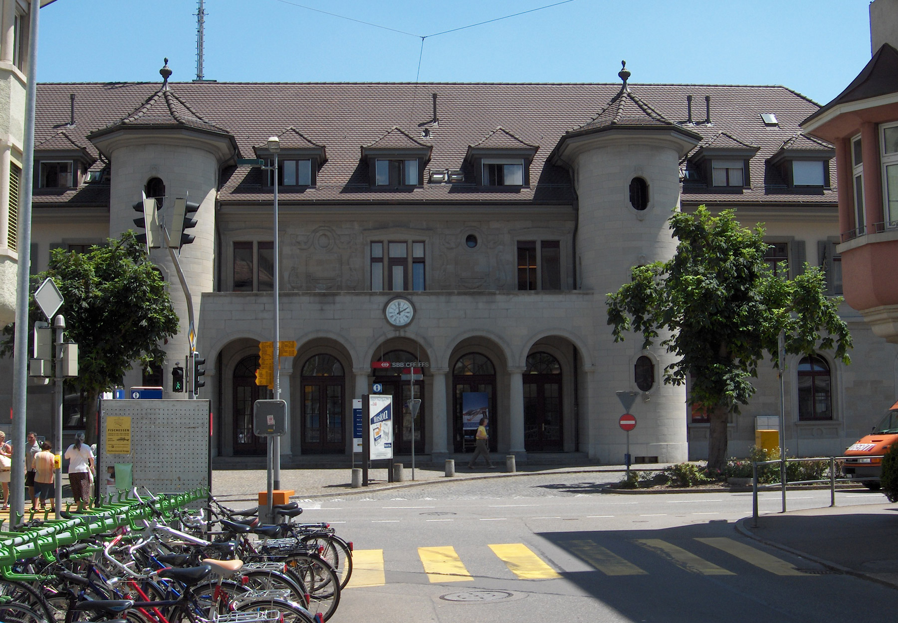 Bahnhof Brugg, Hauptgebäude Fotografiert durch Voyager, 28. Juni 2006 Brugg railway station, main building Photo taken by Voyager, 28 June 2006